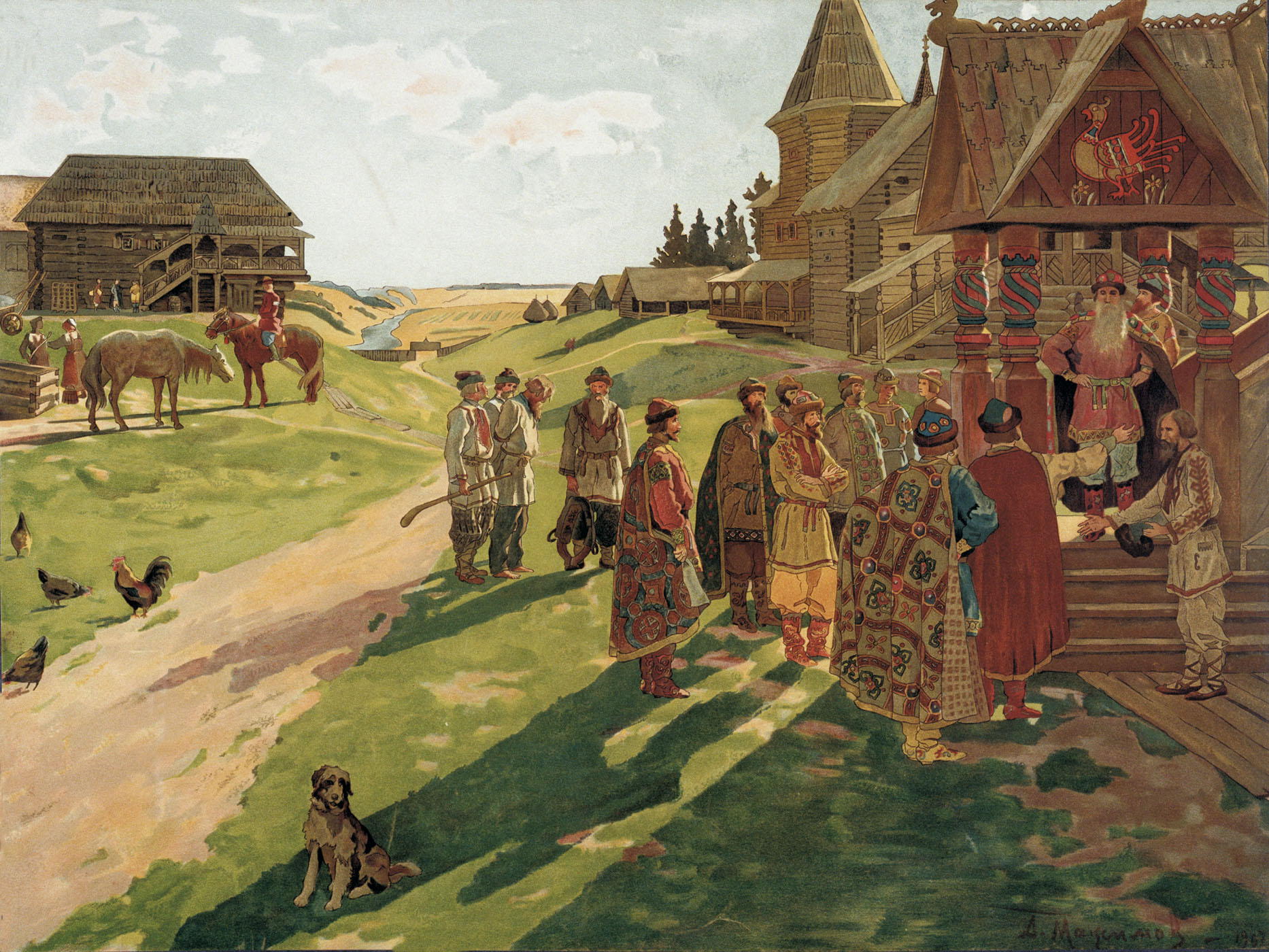 Aleksey Maksimov (1870-1921). A Medieval Princely Estate in Russia.